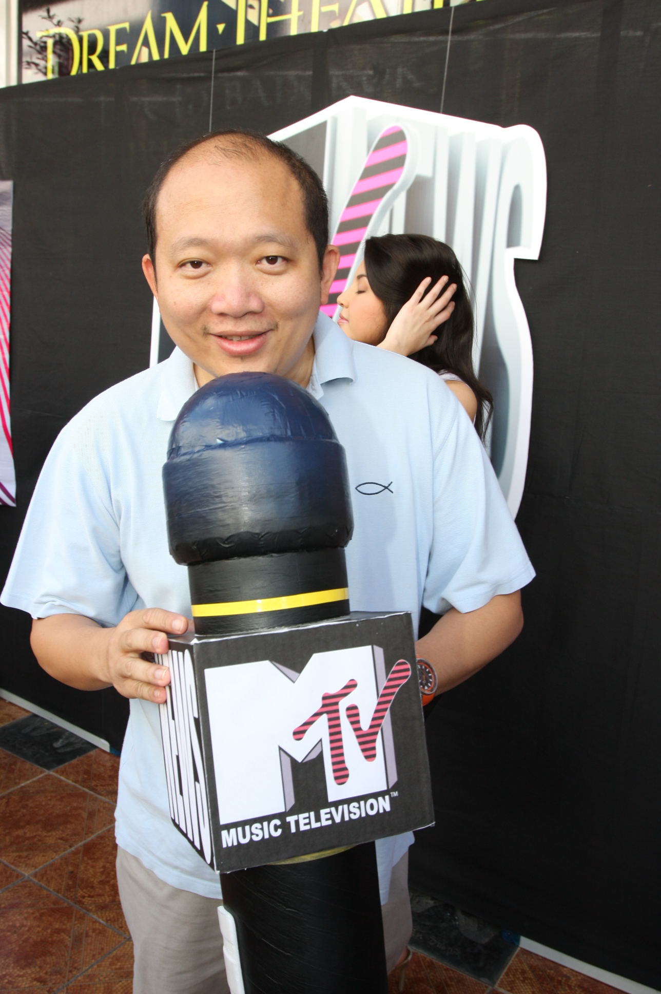 Boyd Kosiyabhong (Thai singer and songwriter)